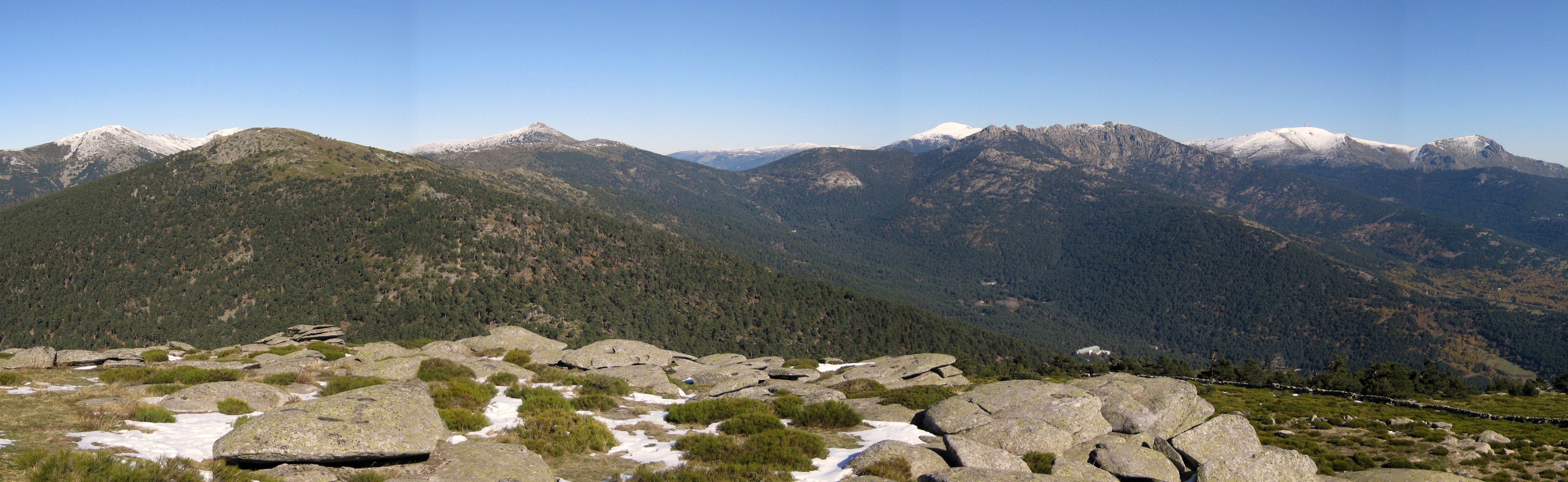 Guadarrama mountain range, Central Spain.